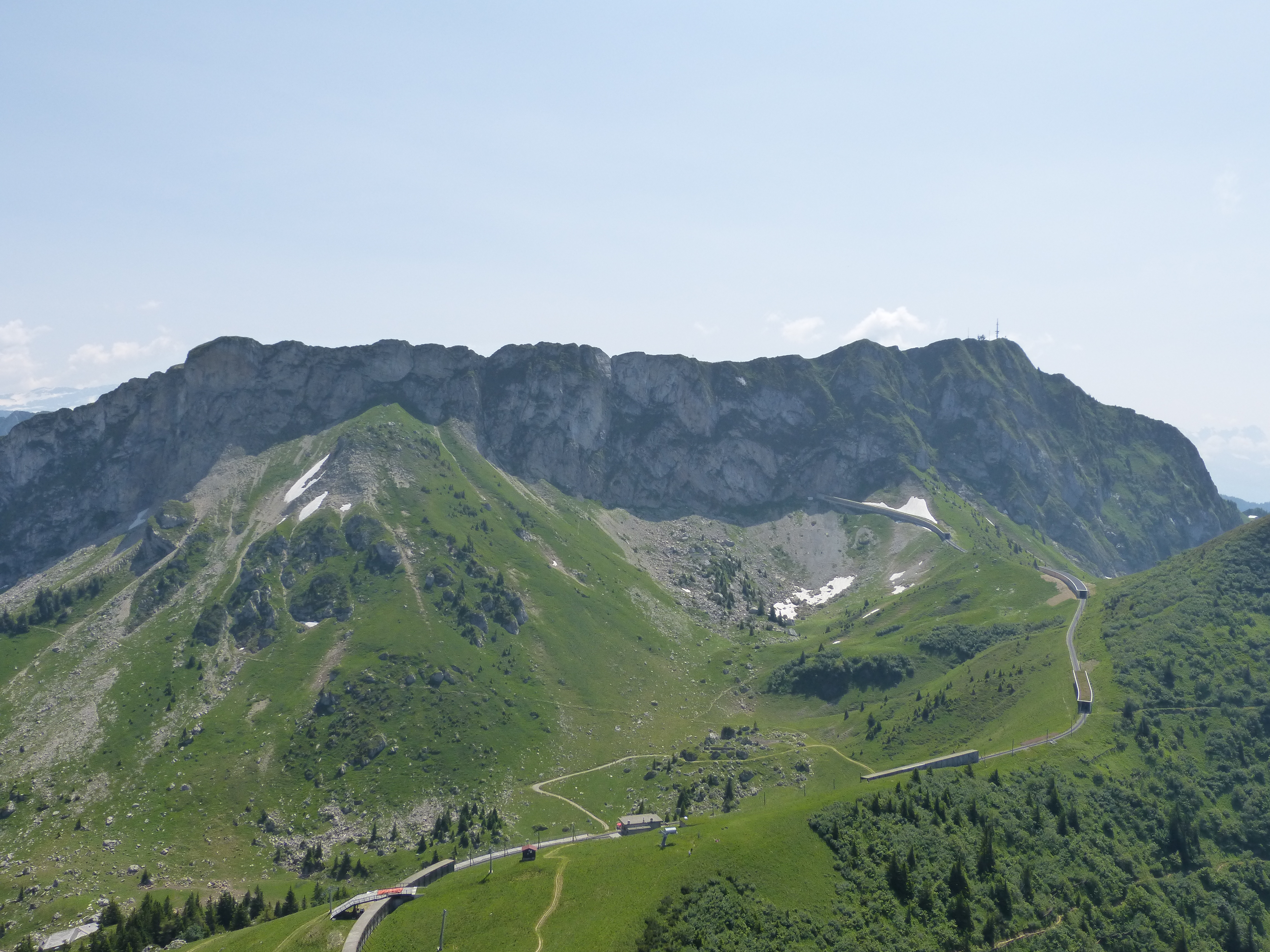 Rochers de Naye views from the top of the Dent de Jaman.